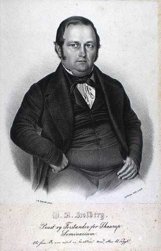 Didrik August Holberg (1804-1883), Danish priest and politician, MP